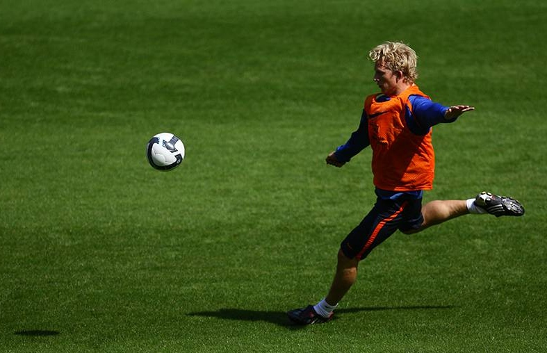 SEPTEMBER 4, 2009 - Football : Dirk Kuyt of Netherlands in aciton during the training session at FC Twente Stadium on September 4, 2009 Enschede, Netherlands. (Photo by Tsutomu Takasu)